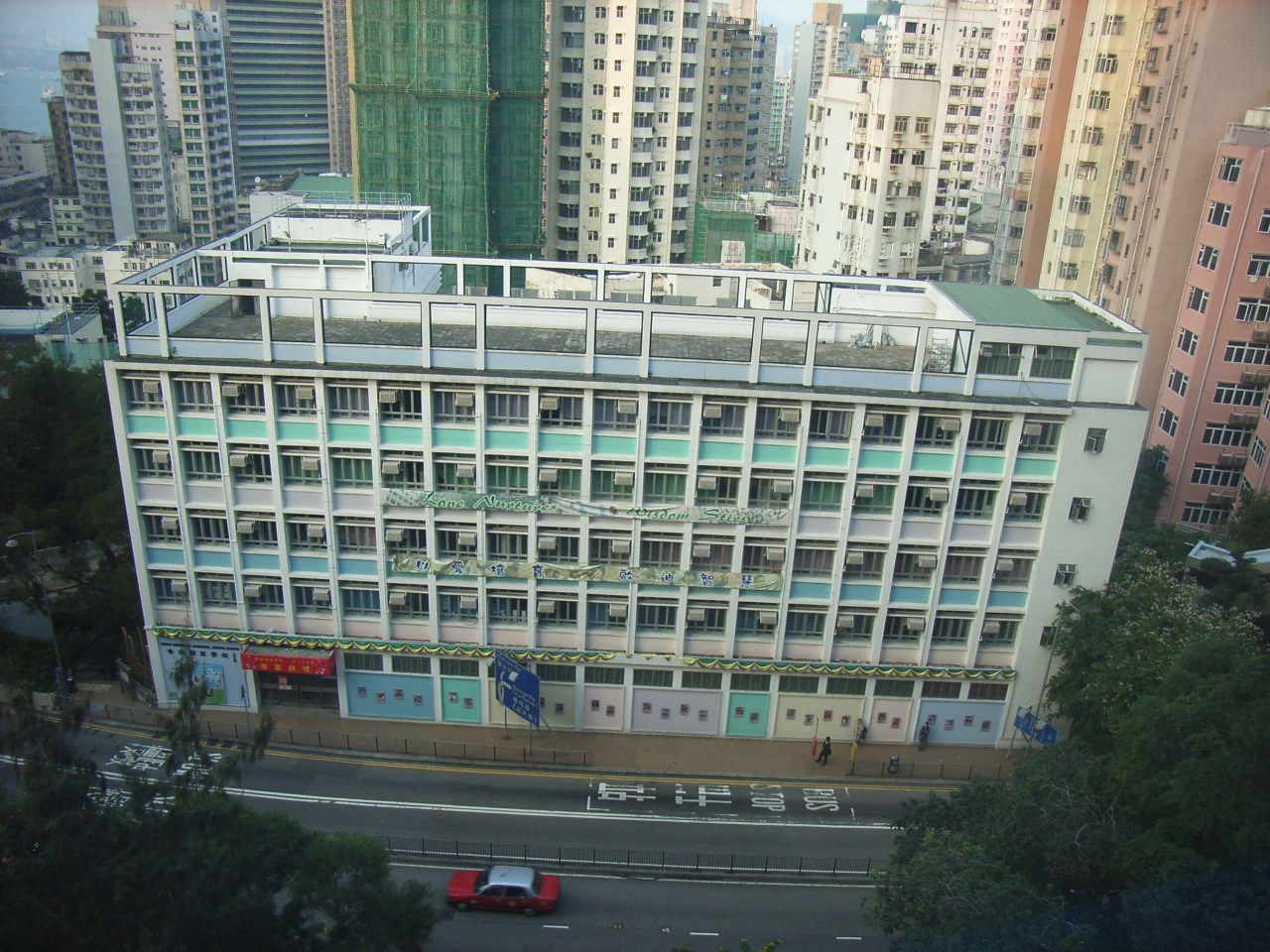 薄扶林 薄扶林道 香港潮商學校